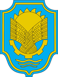 Coat of arms of Welyka Olexandriwka Raion